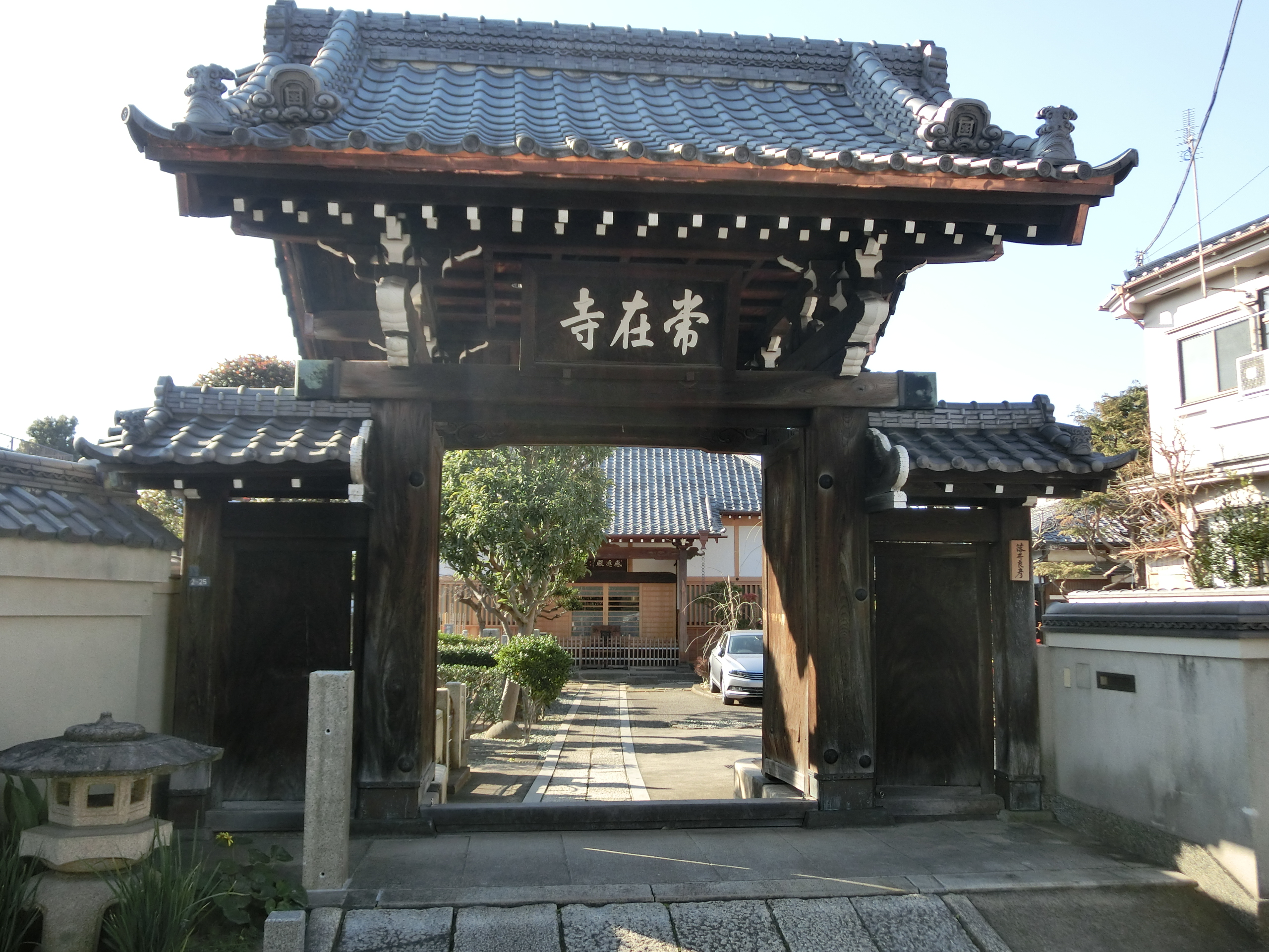 Jozai-ji (Taito)